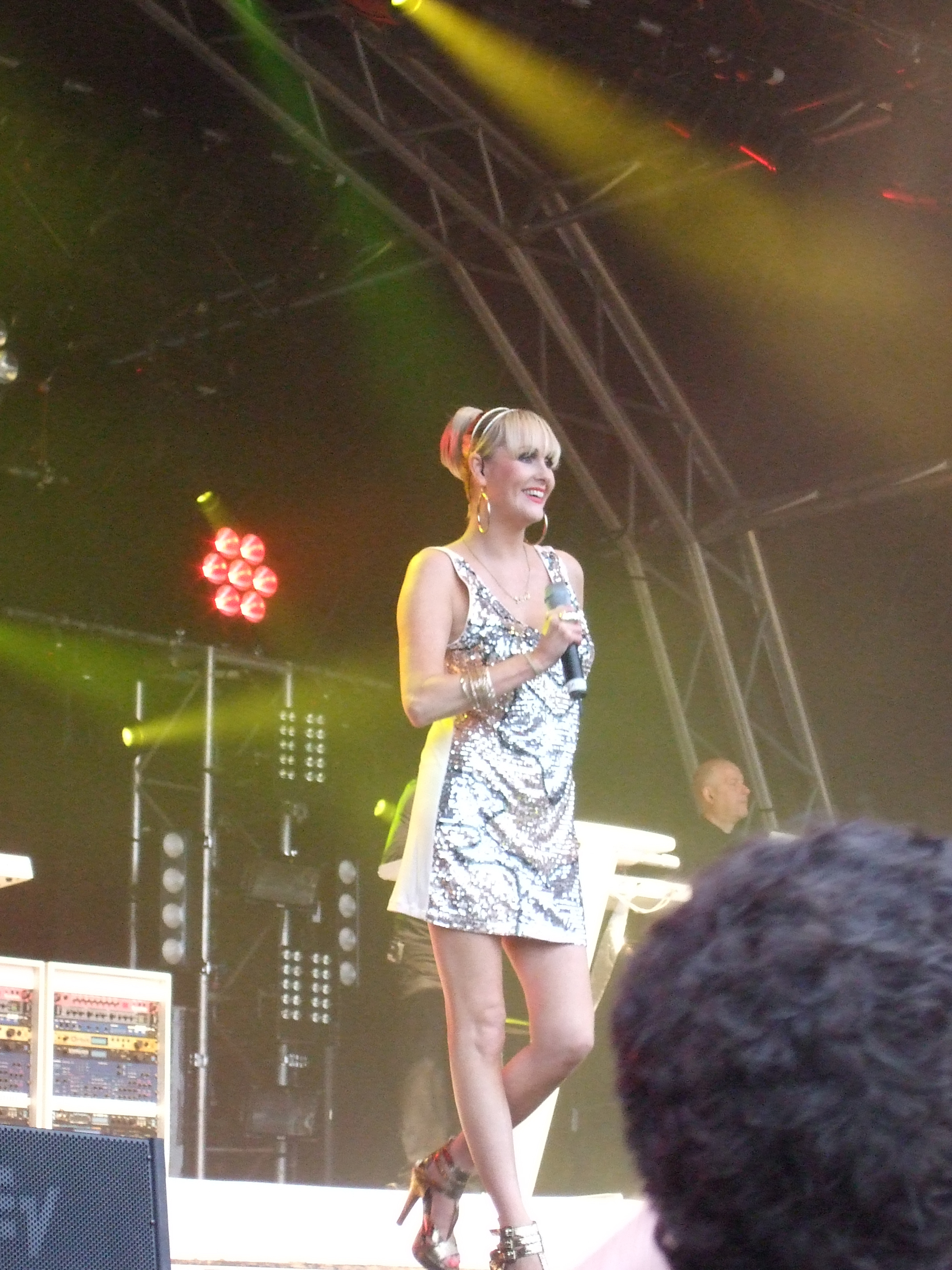 Susan Ann Sulley of The Human League at Clapham Common, London 26/07/09